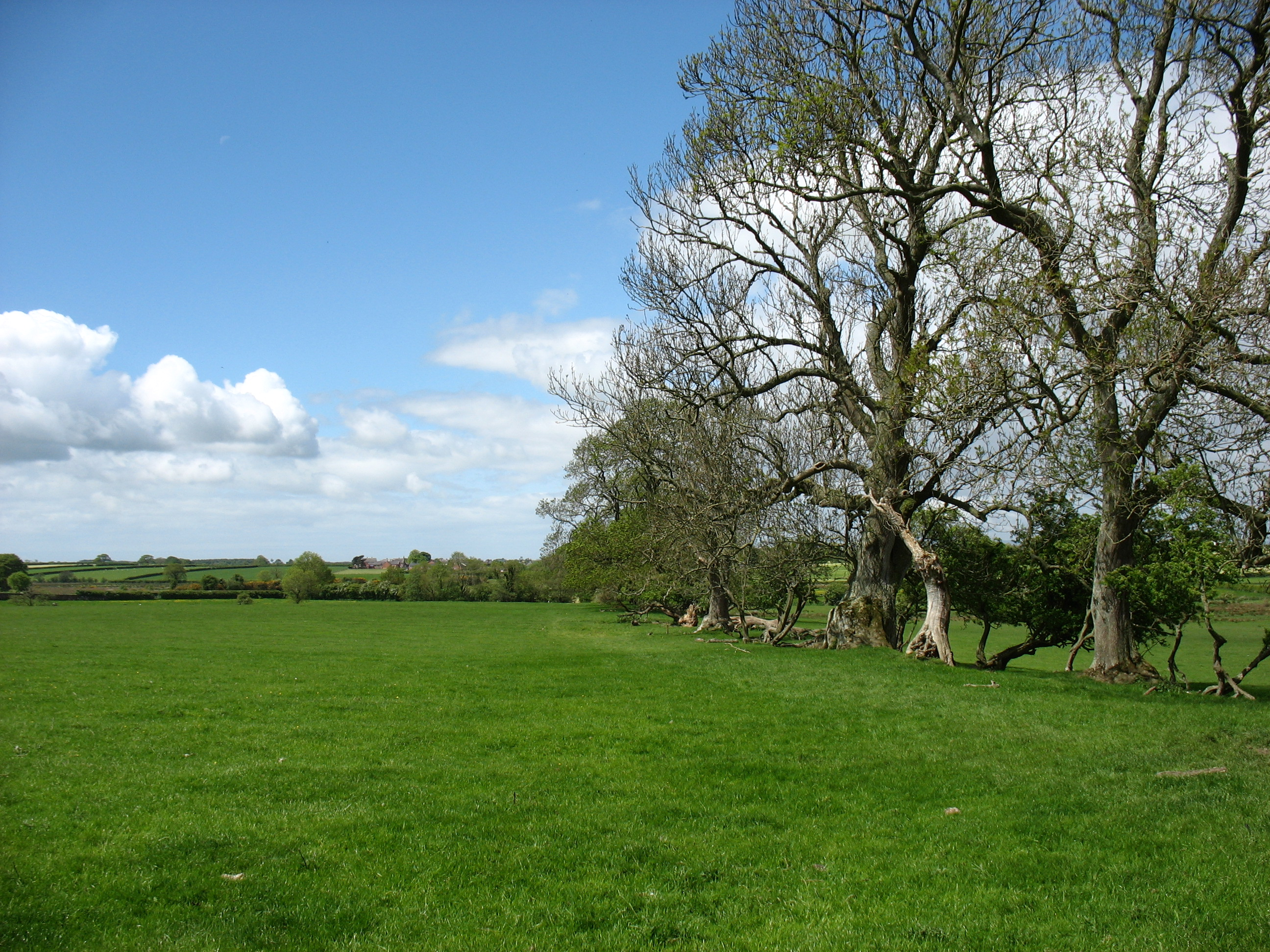 The Hadrian's Wall Path heads for Burgh by Sands